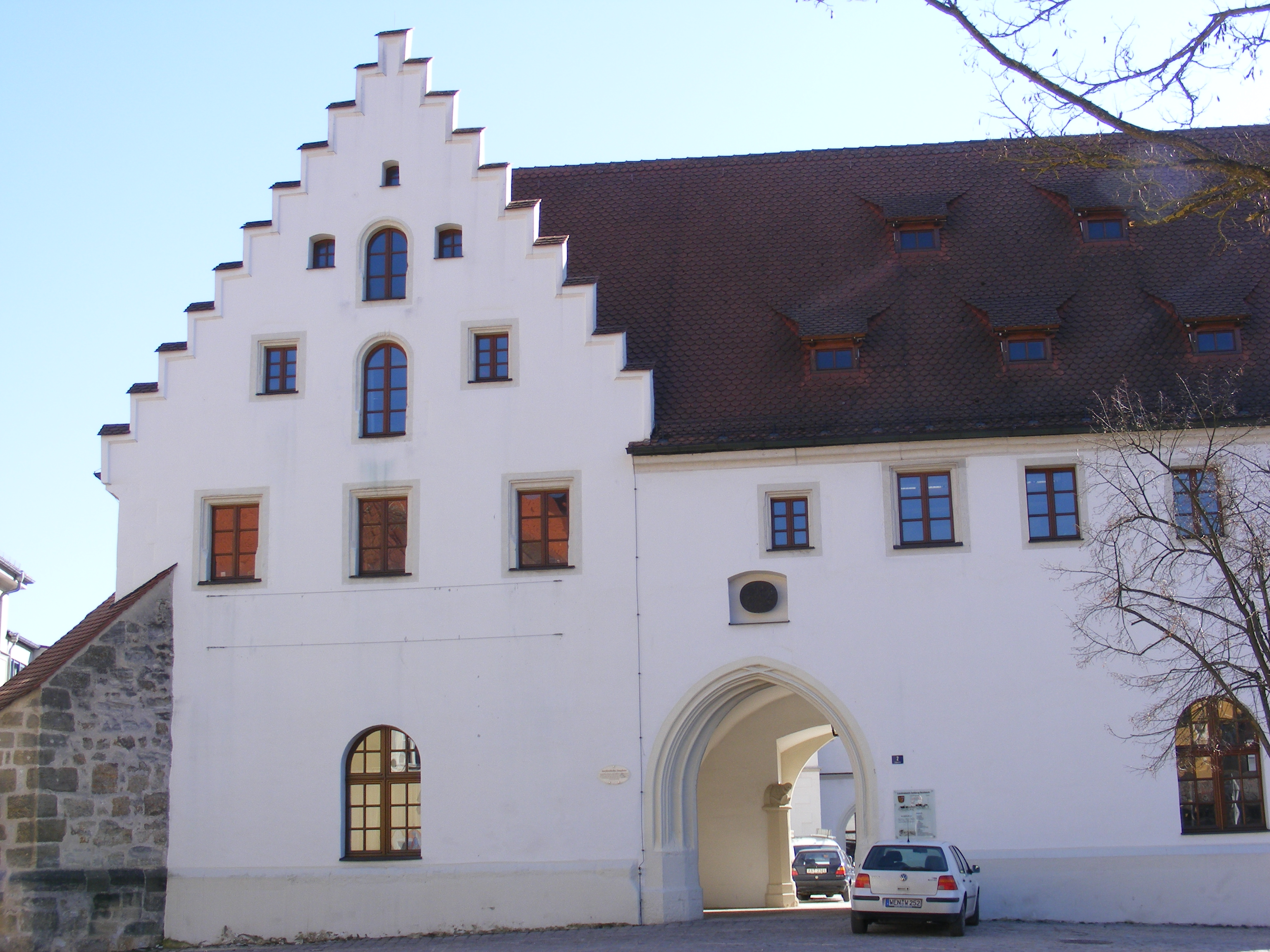 This is a photograph of an architectural monument.